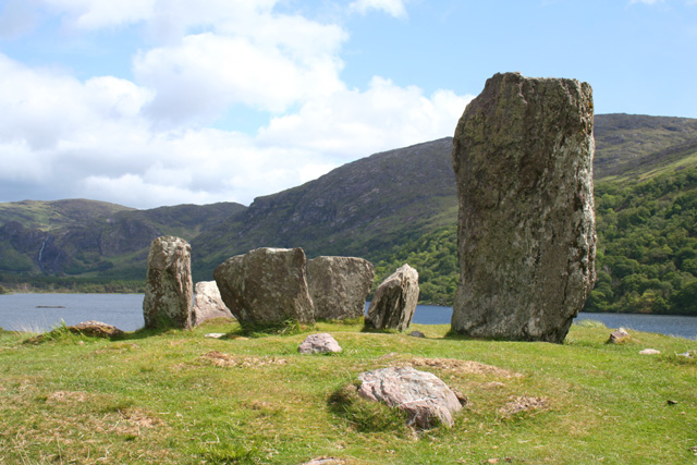 Uragh stone circle, overlooking Lough Inchiquin. One of two stone circles in the Uragh area (the other is at V824630, on private land); the largest stone is around 10 feet high (see also: 458953). Lough Inchiquin (Loch Inse Choinn) and the Inchiquin Falls (just visible, left) are in the background. Well worth the small entry fee suggested by the landowner